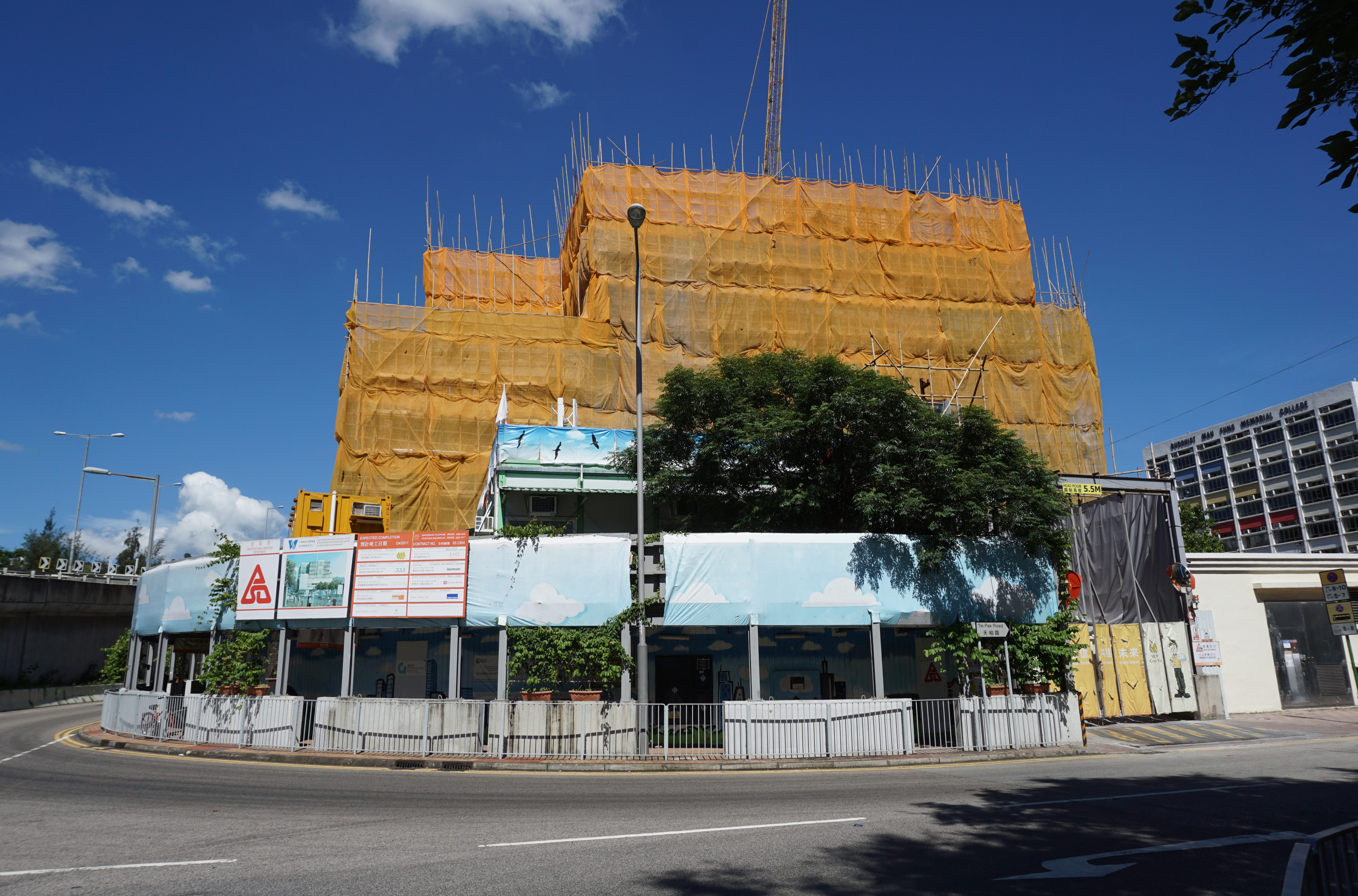 Water Supplies Department Building in Tin Shui Wai, Hong Kong.